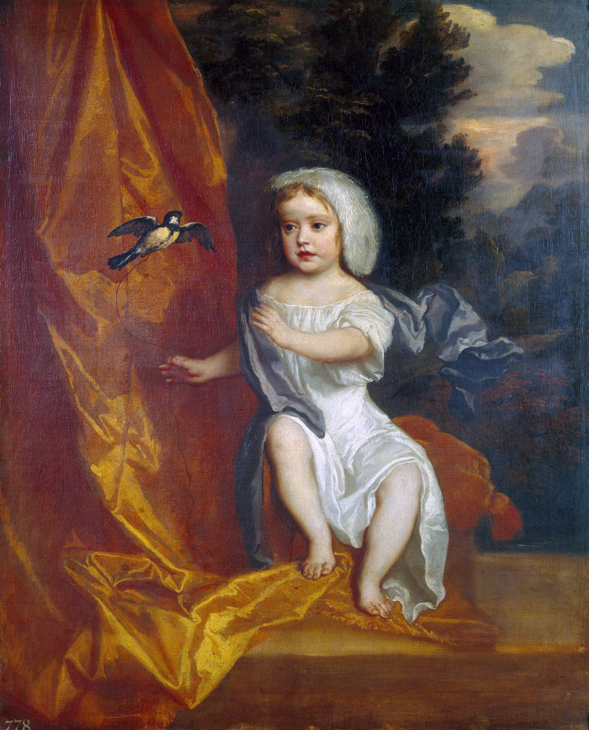 She wears a linen shift which imitates classical drapery and a large white feather adorns her headdress.